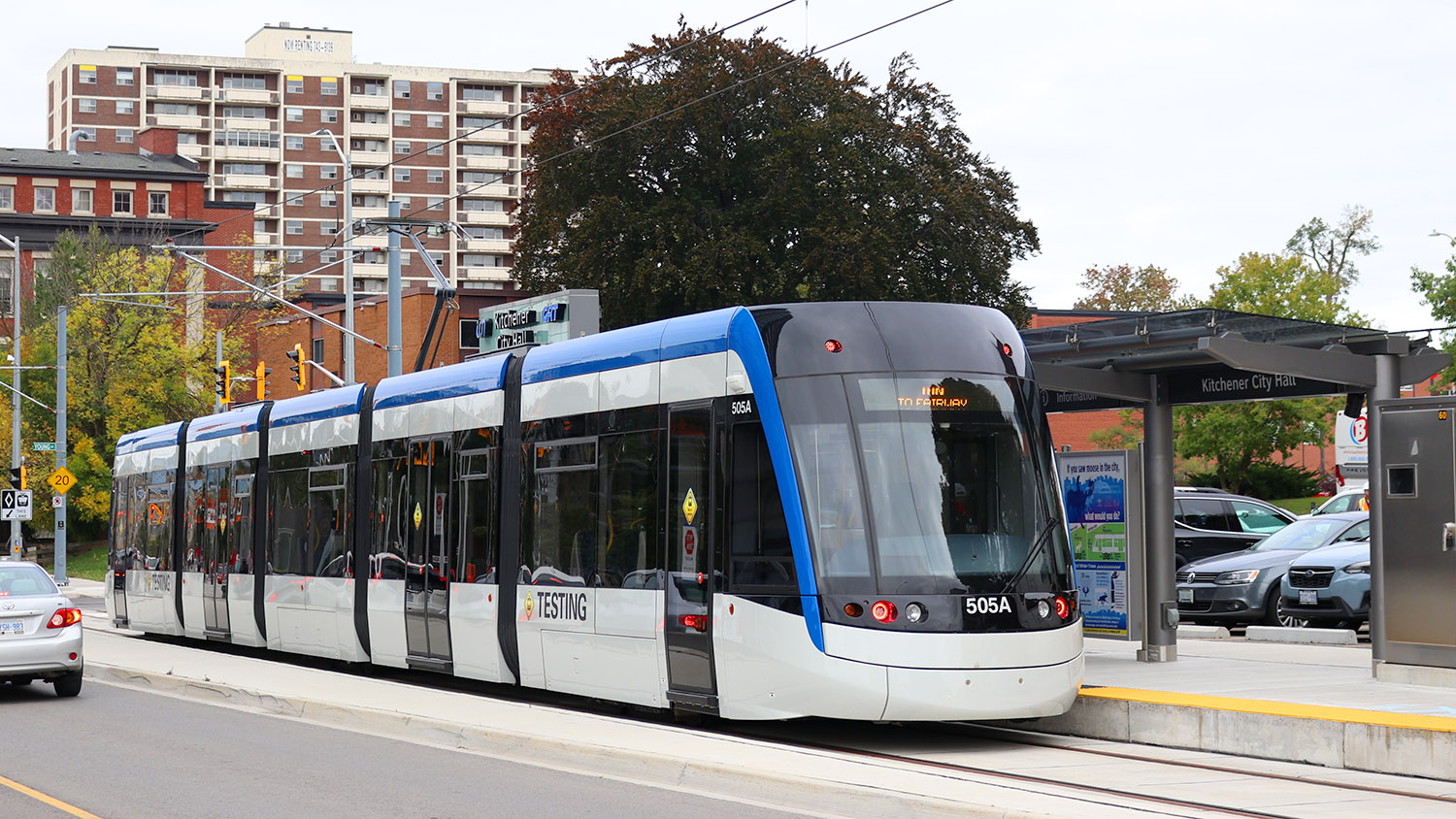 The ION 2017 Bombardier Flexity Freedom #505 is spotted at Kitchener City hall station while testing.